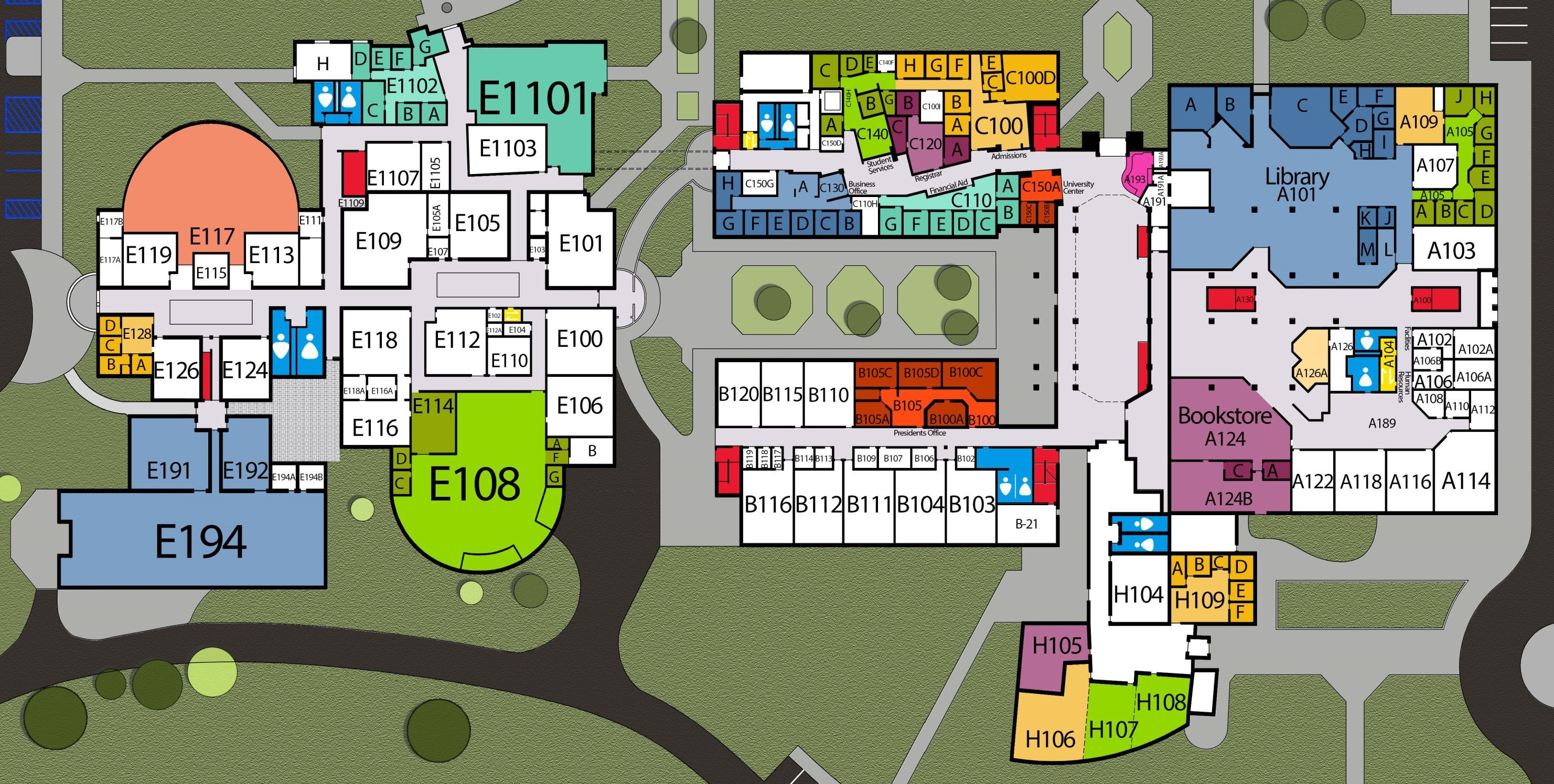 A map detailing room numbers of NSCC on the 1st floor